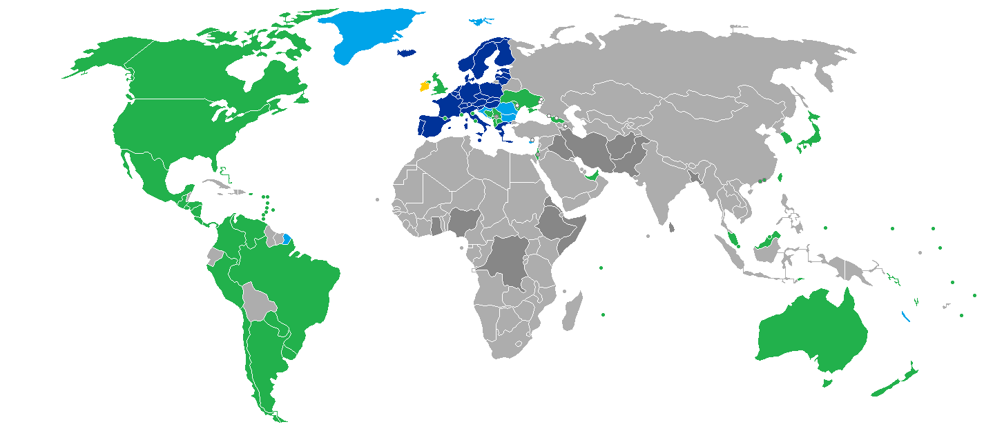 Schengen Area Other EU members outside Schengen Area but bound by same visa policy and special territories of the EU and Schengen member states. Members of the EU with an independent visa policy Visa-free access to the Schengen states for 90 days in any 180 day period, although some Annex II nationals can enjoy longer visa-free access in some circumstances (EC 539/2001 Annex II) Visa required to enter the Schengen states (EC 539/2001 Annex I) Visa required for transit via the Schengen states (EC 810/2009 Annex IV) Visa status unknown [1], [2], [3]